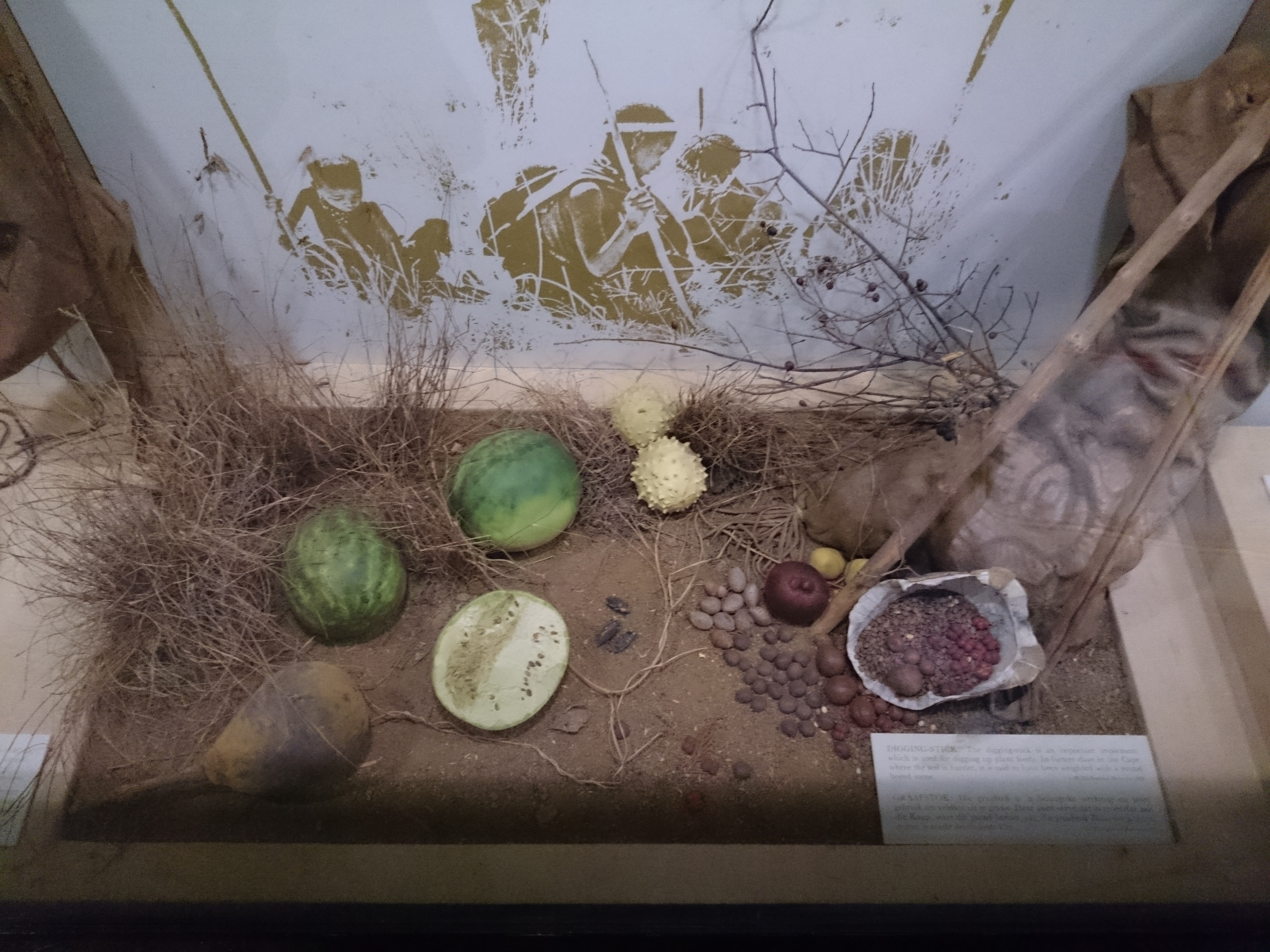 A farmland with some of the crops on display with some tools for working on the farmland, like digging stick on the right.